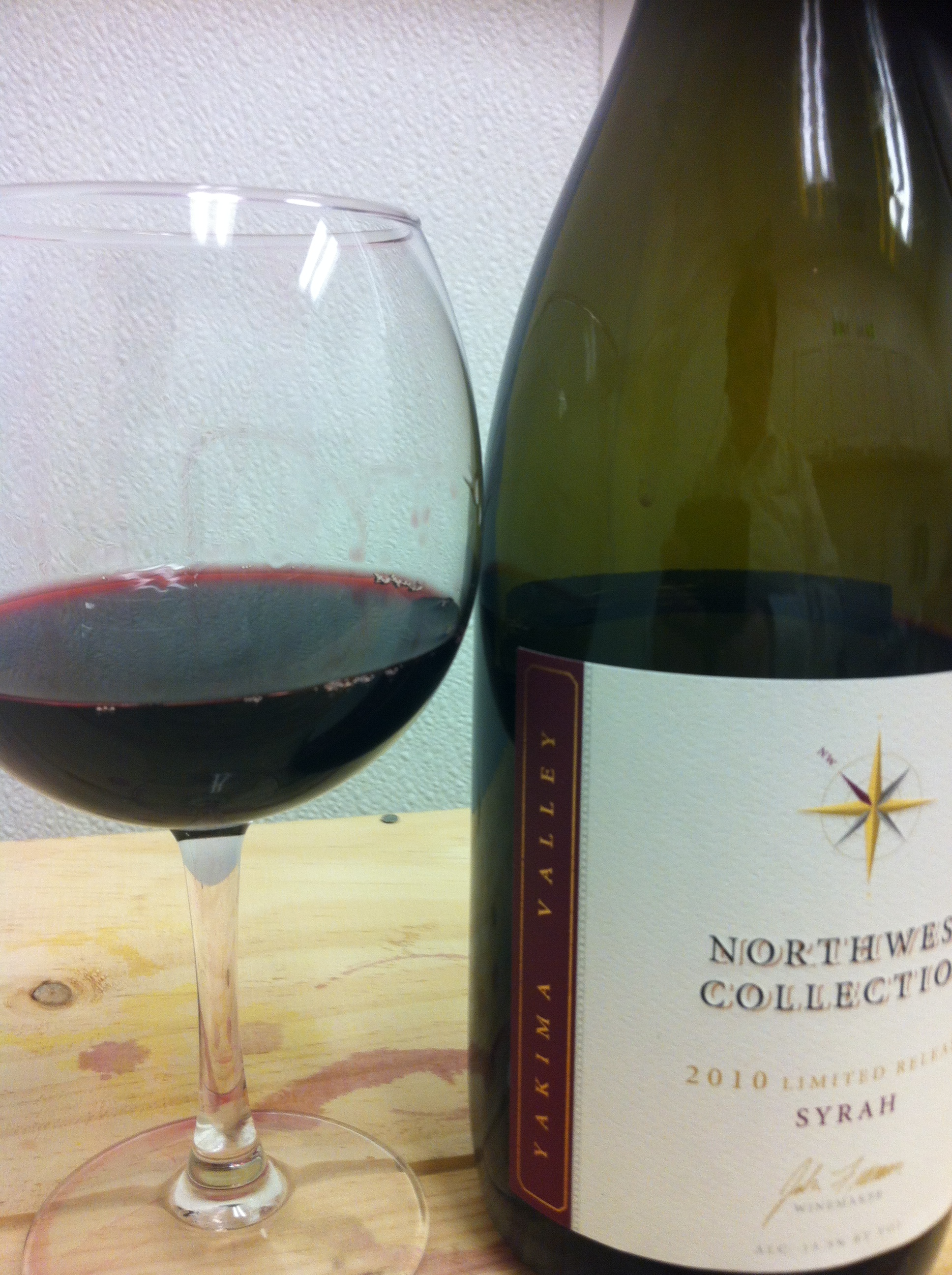 Syrah wine from the Washington State wine region of the Yakima Valley